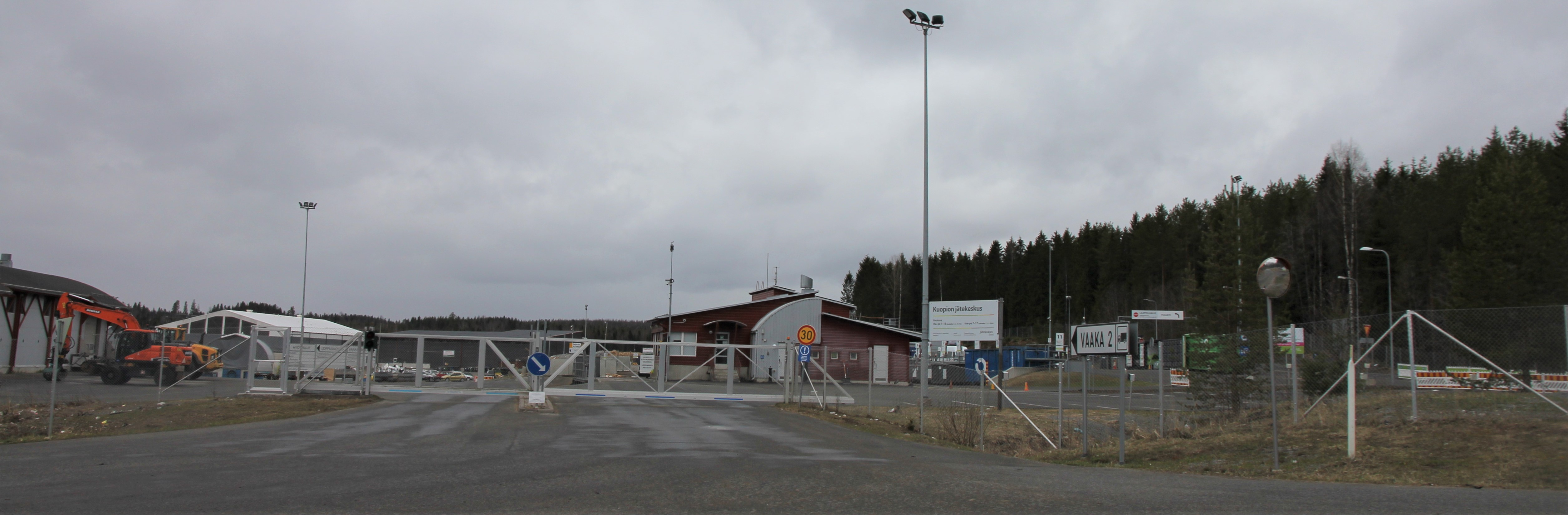 Kuopio Waste Center is a former landfill, currently recycling or reusing (including bioenergy production and waste incineration) over 99 percent of the incoming waste in Kiviharju, Kuopio, Finland.